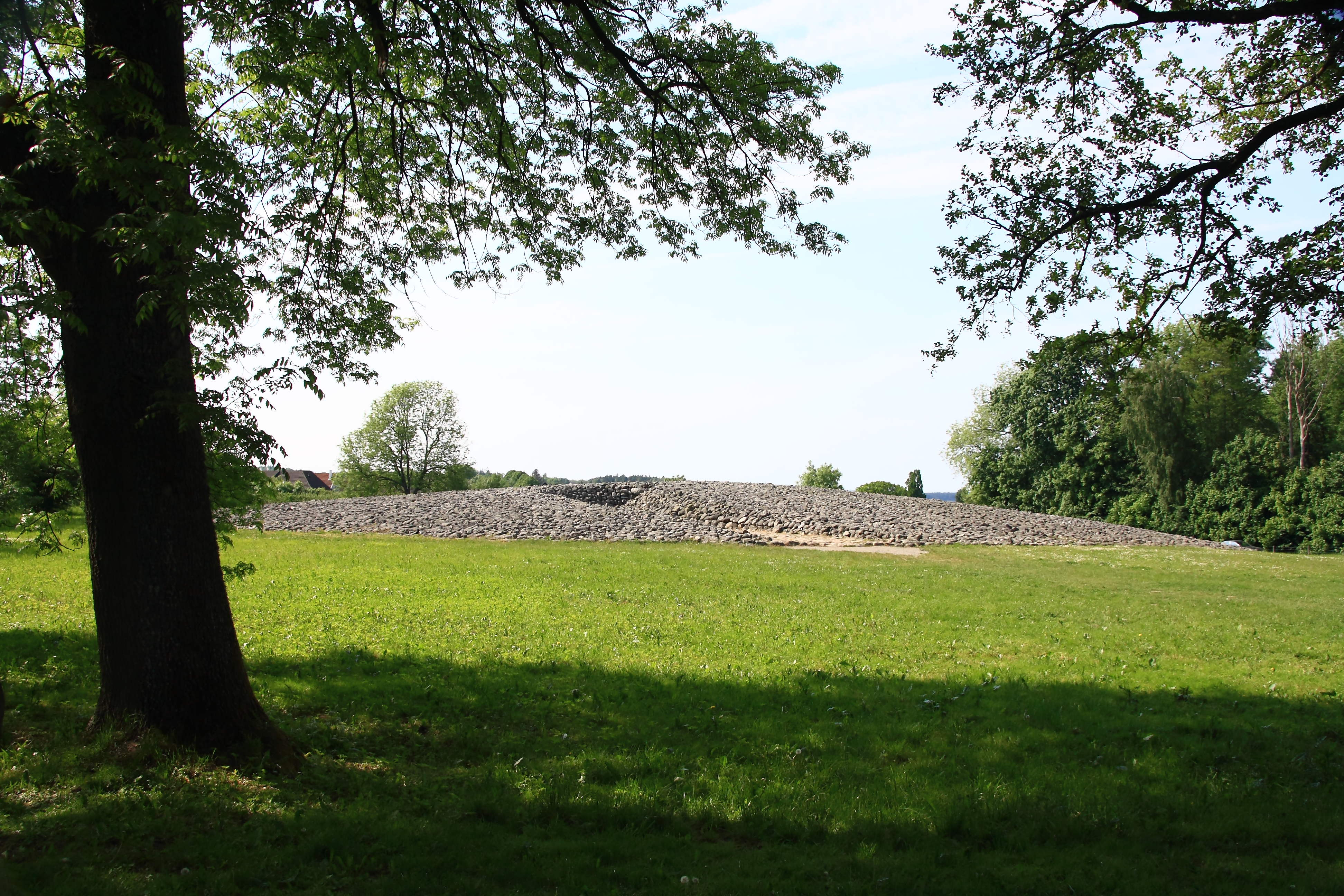 The King´s grave near Kivik